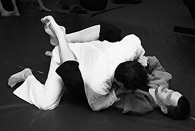 Brazilian jiu-jitsu.